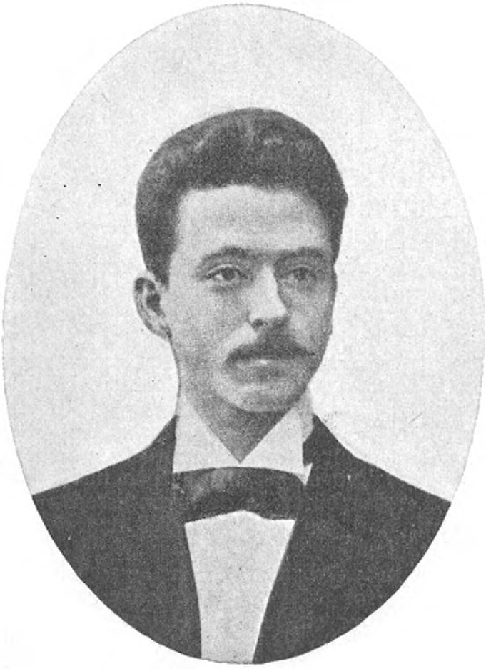 nameJ. E. W. DUIJS political affiliationSocial Democratic Workers' Party positiemember of the House of Representatives of the Netherlands districtZaandam